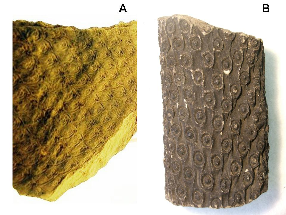 Pic taken from Spanish Wikipedia by DanielCD on May 24, 2005. Picture was taken in the Paleobotany Museum of Cordoba, Spain. It is of the fossil trunk of an extinct Lepidodendron species (Lepidodendron aculeatun). Source and author are below. Info from there: Fotografía realizada en el Museo Paleobotánico de Córdoba (España) de un fosil del tronco de Lepidodendron aculeatun procedente de Peñarroya (Córdoba). De: Enciclopedia Libre. Autor: Pablo Alberto Salguero Quiles. The second image correspond to a "Root" of "Lepidodendron" - top view